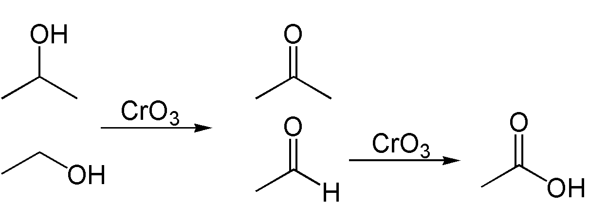 Jones Oxidation